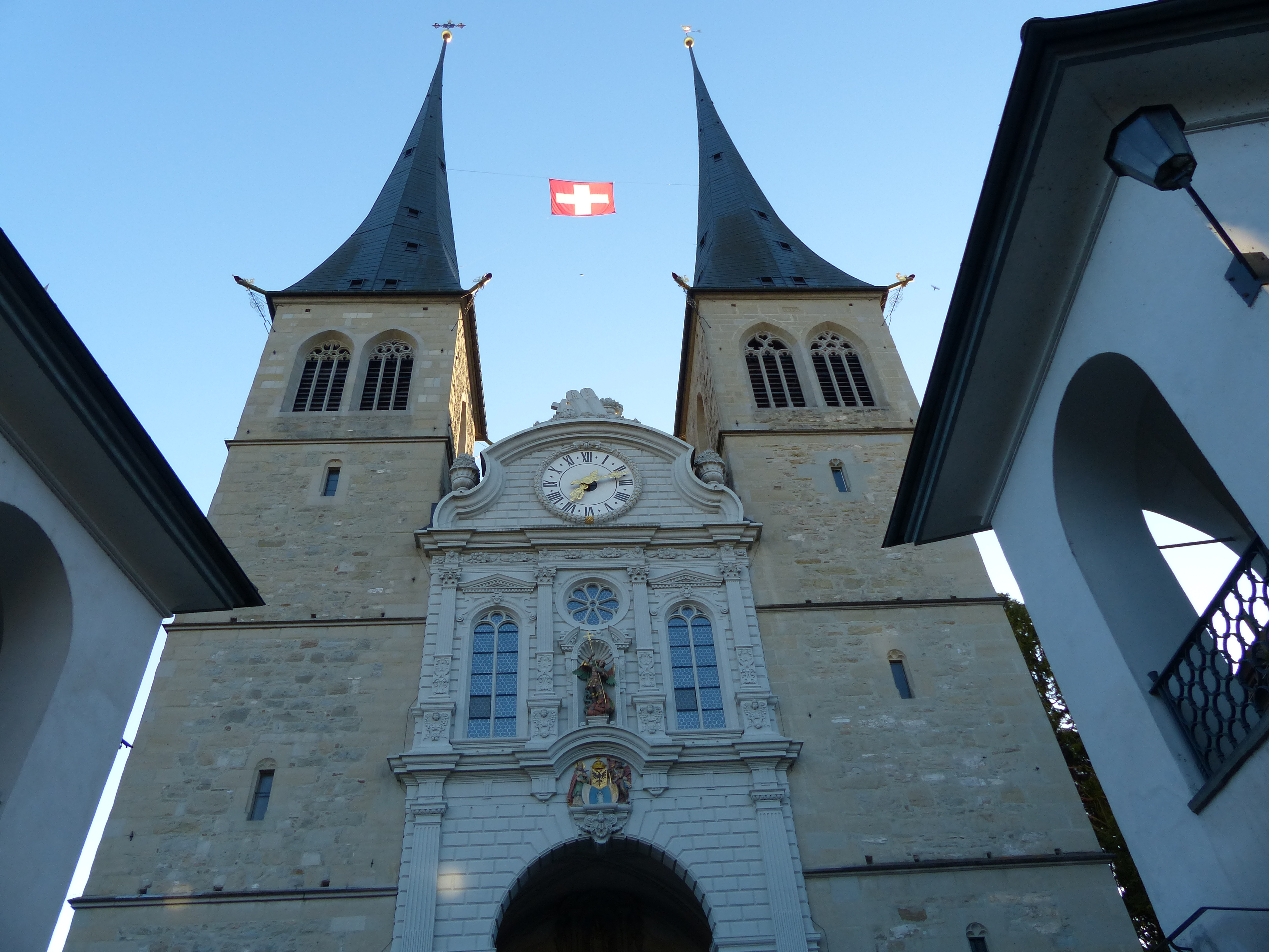 Lucerne Hofkirche with Swiss flag between the towers on our national holiday the 1st of August 2013